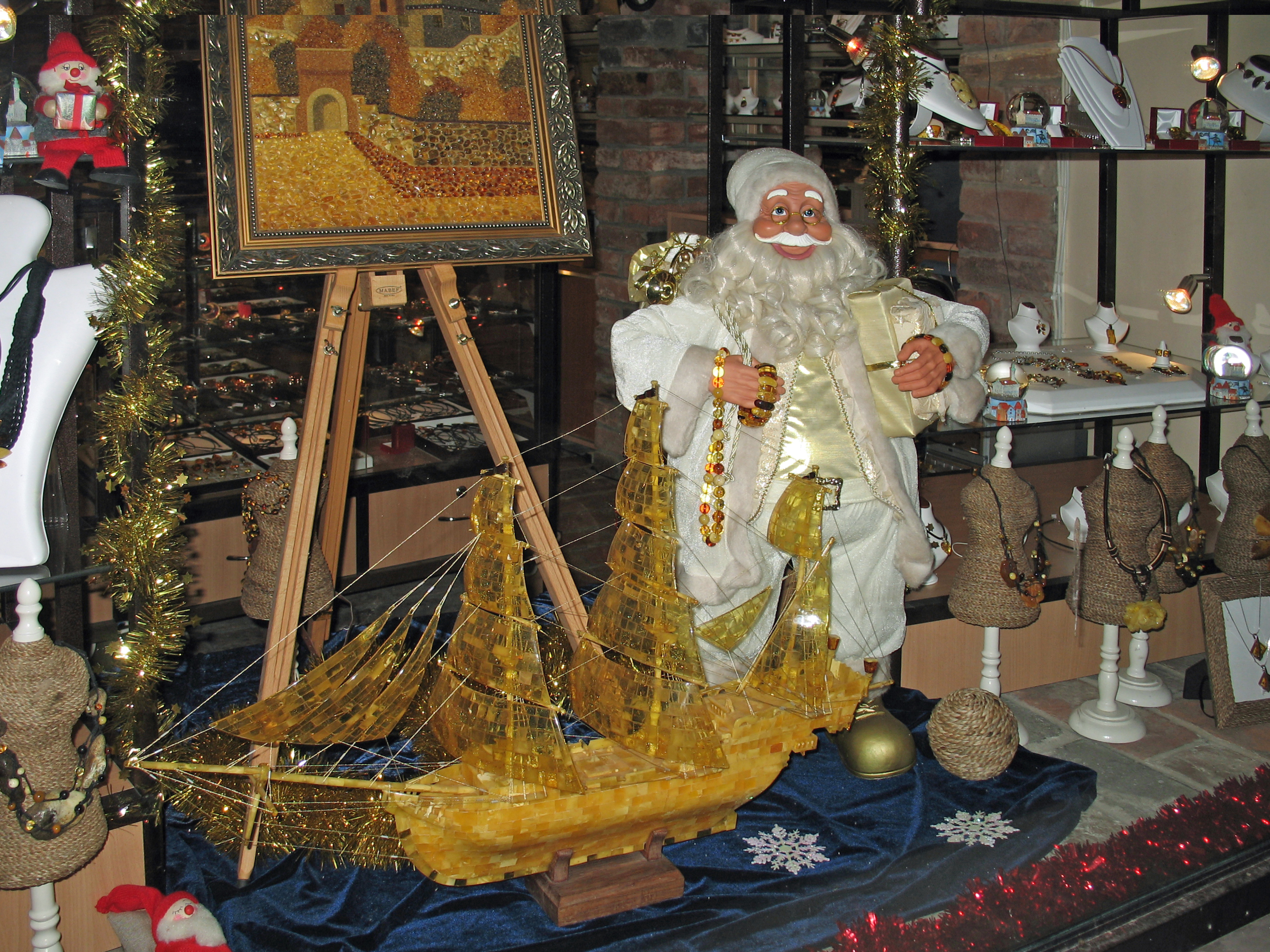 Souvenirs shop window in Christmas time, Tallinn, Estonia, year 2008